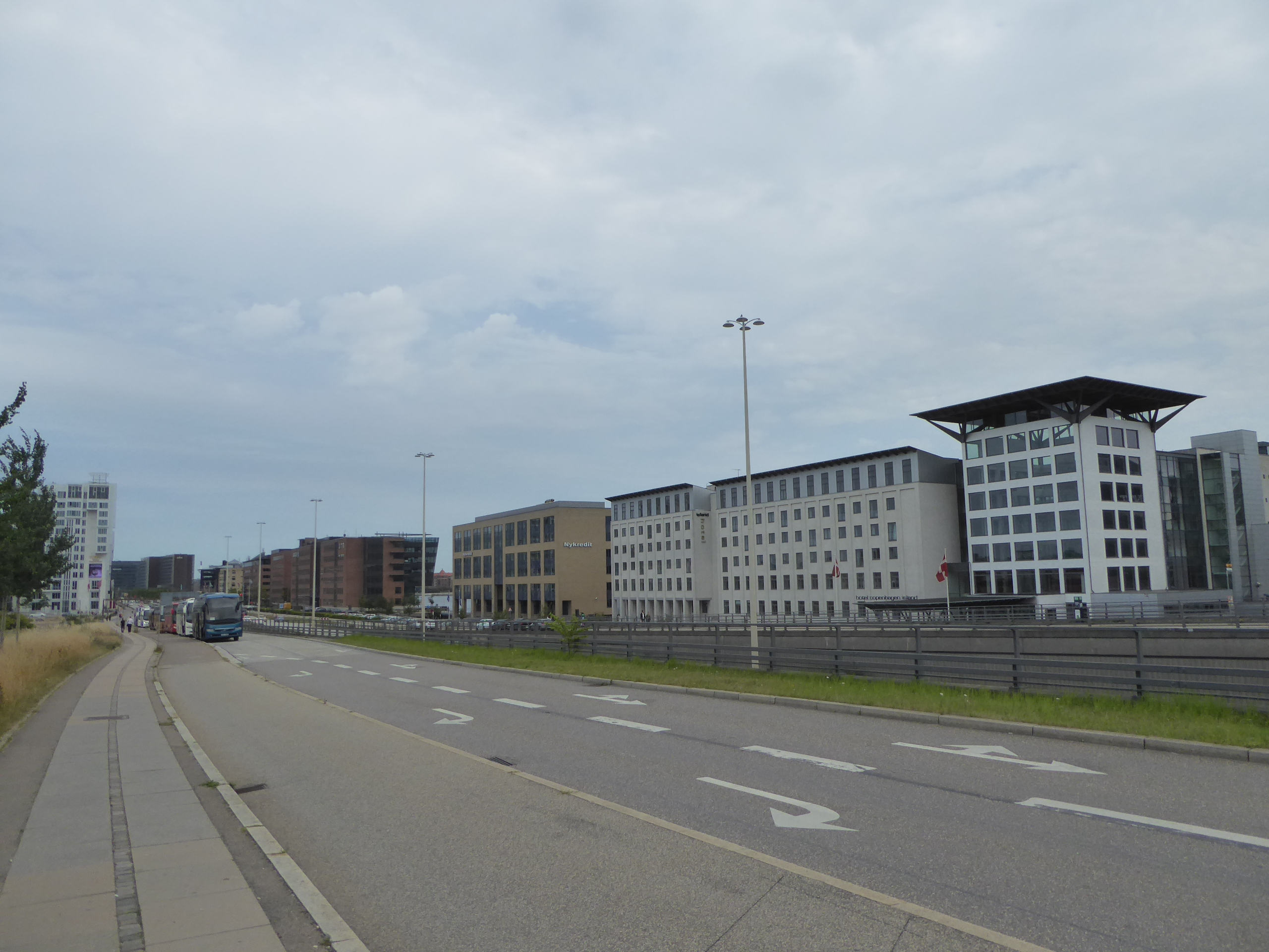 The street Kalvebod Brygge in Vesterbro in Copenhagen.